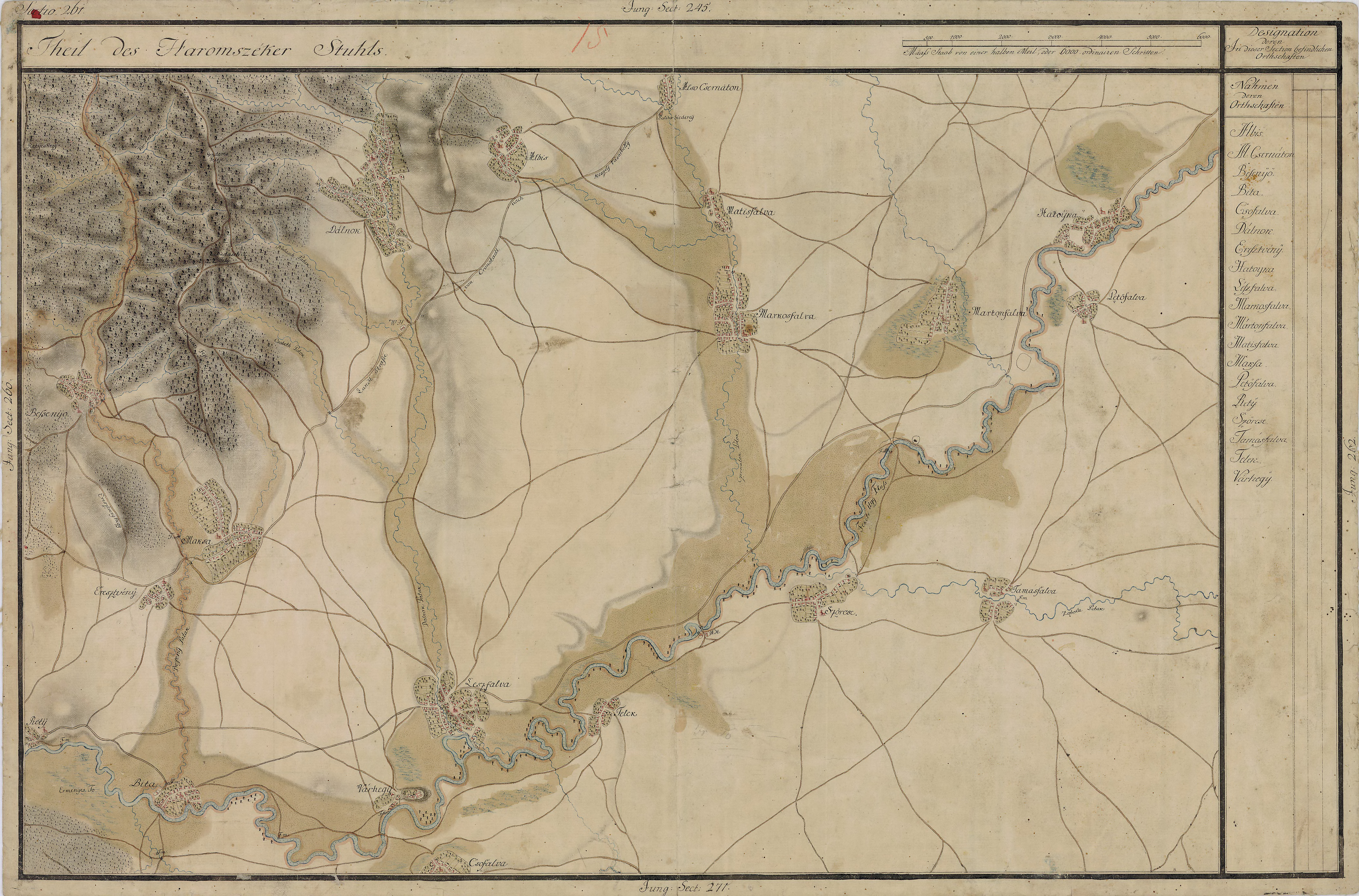 Grand Duchy of Transylvania, 1769-1773. Josephinische Landaufnahme pg.261